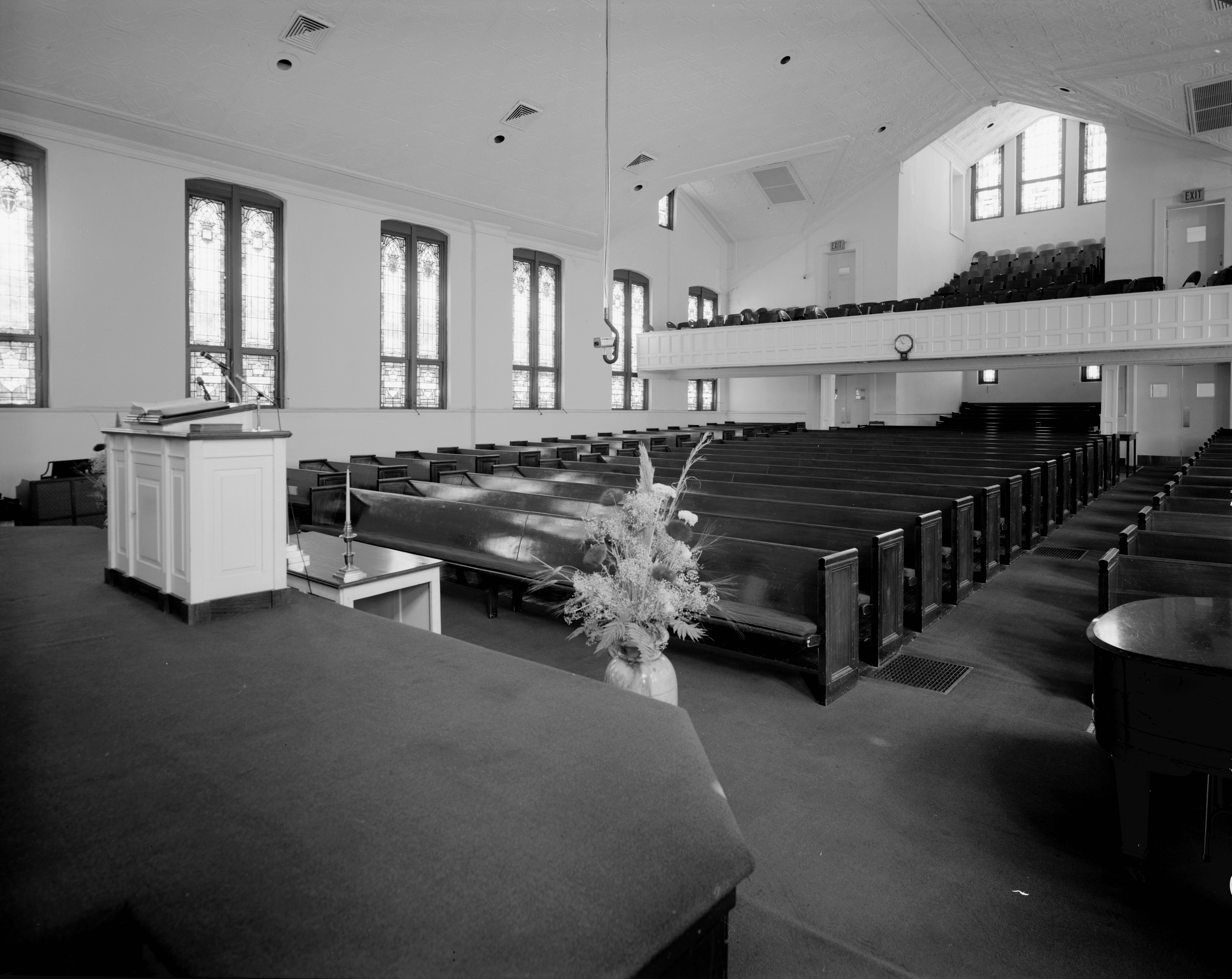 Martin Luther King, Jr. National Historic Site, Ebenezer Baptist Church, 407 Auburn Avenue Northeast, Atlanta, Fulton County, GA. 33°45′19″N 84°22′27″W / 33.75528°N 84.37417°W Interior, view from behind pulpit, looking toward balcony. Image has been cropt to remove border.